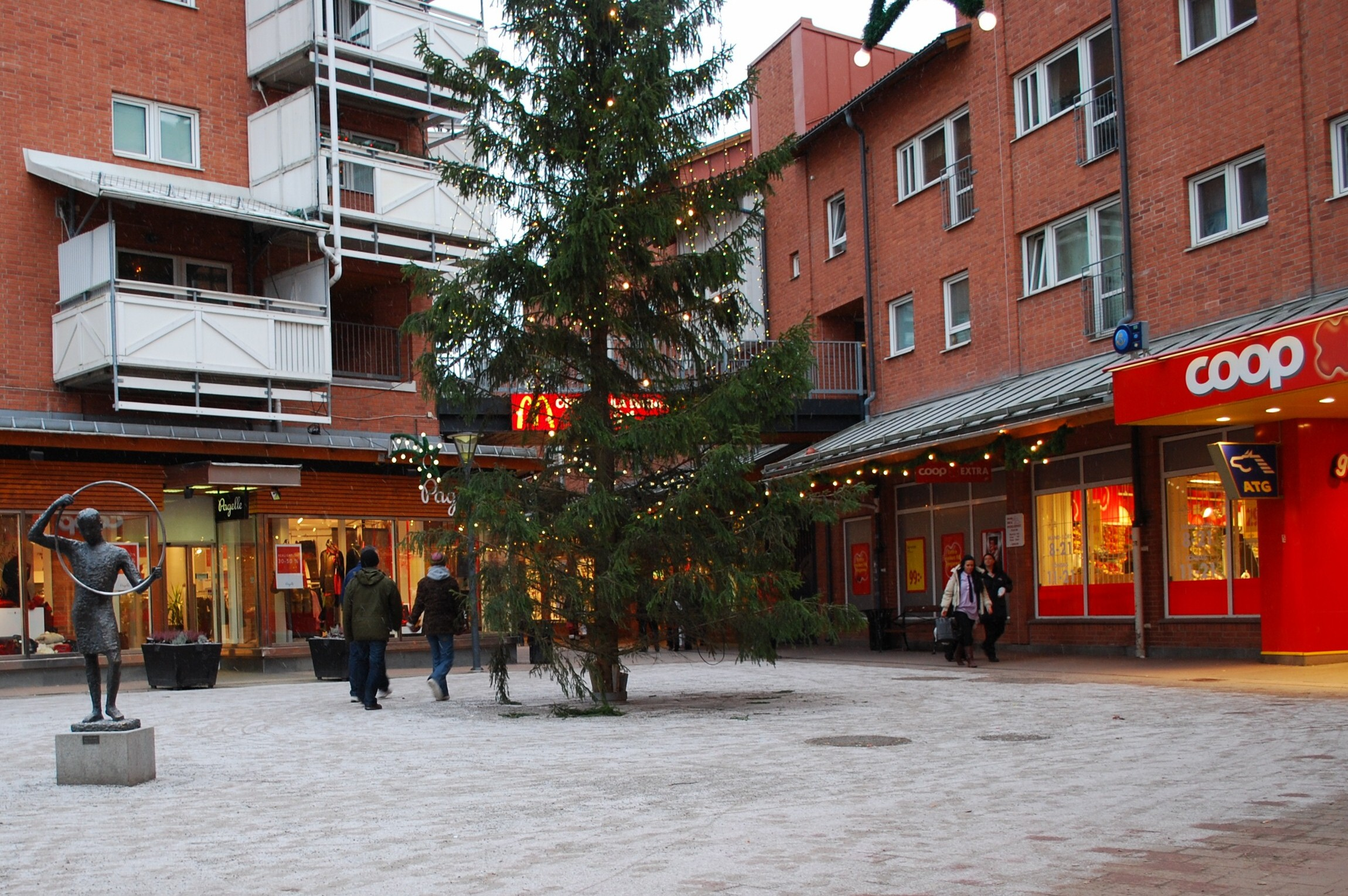 Huddinge Centrum